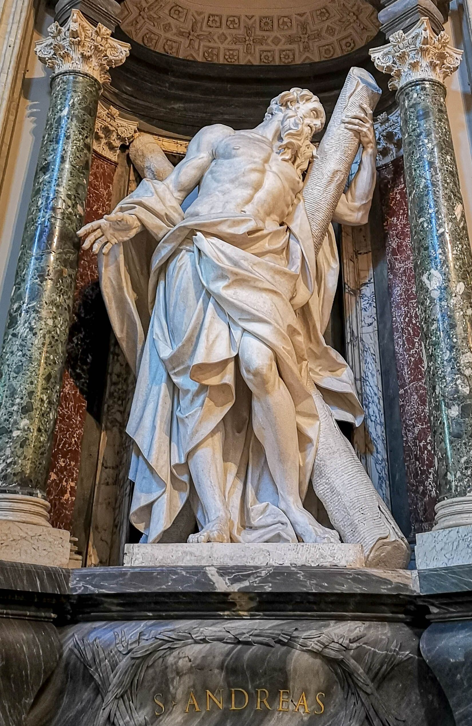 Statue of Andrew in the Archbasilica of St. John Lateran by Camillo Rusconi